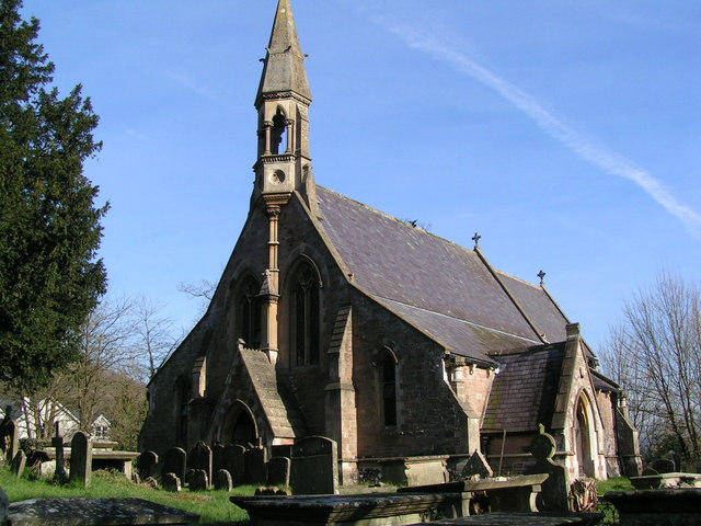 Llandogo Church